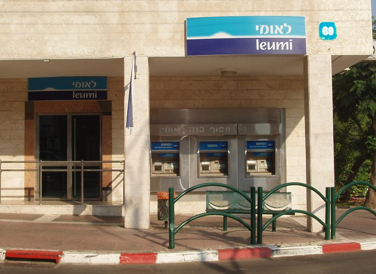 Bank Leumi logo, Ramat Ha'Sharon branch, Sokolow Str.